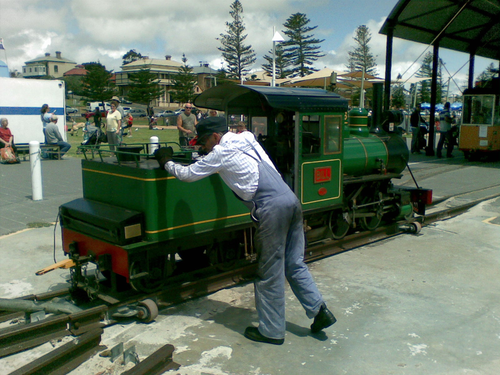 Turning the train on the Semaphore and Fort Glanville Tourist Railway, Semaphore Jetty, South Australia. Operated by the National Railway Museum, Port Adelaide